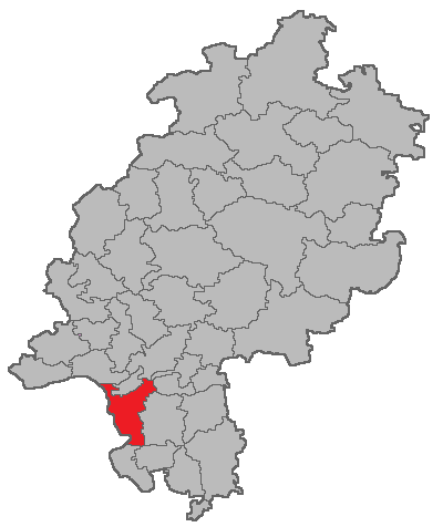 Map of the district court Groß-Gerau in Hesse